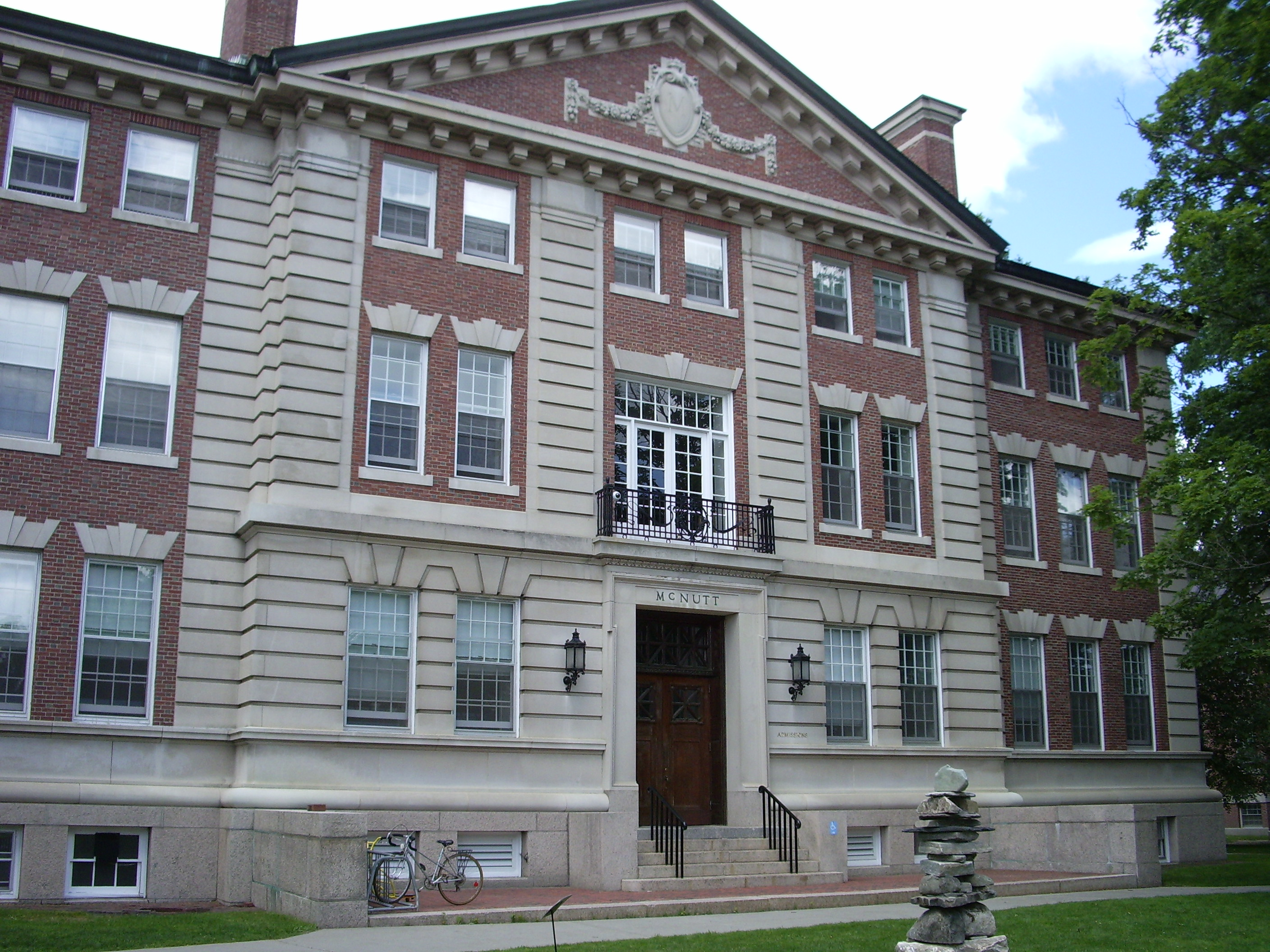 Photograph of McNutt Hall at the campus of Dartmouth College in Hanover, New Hampshire.